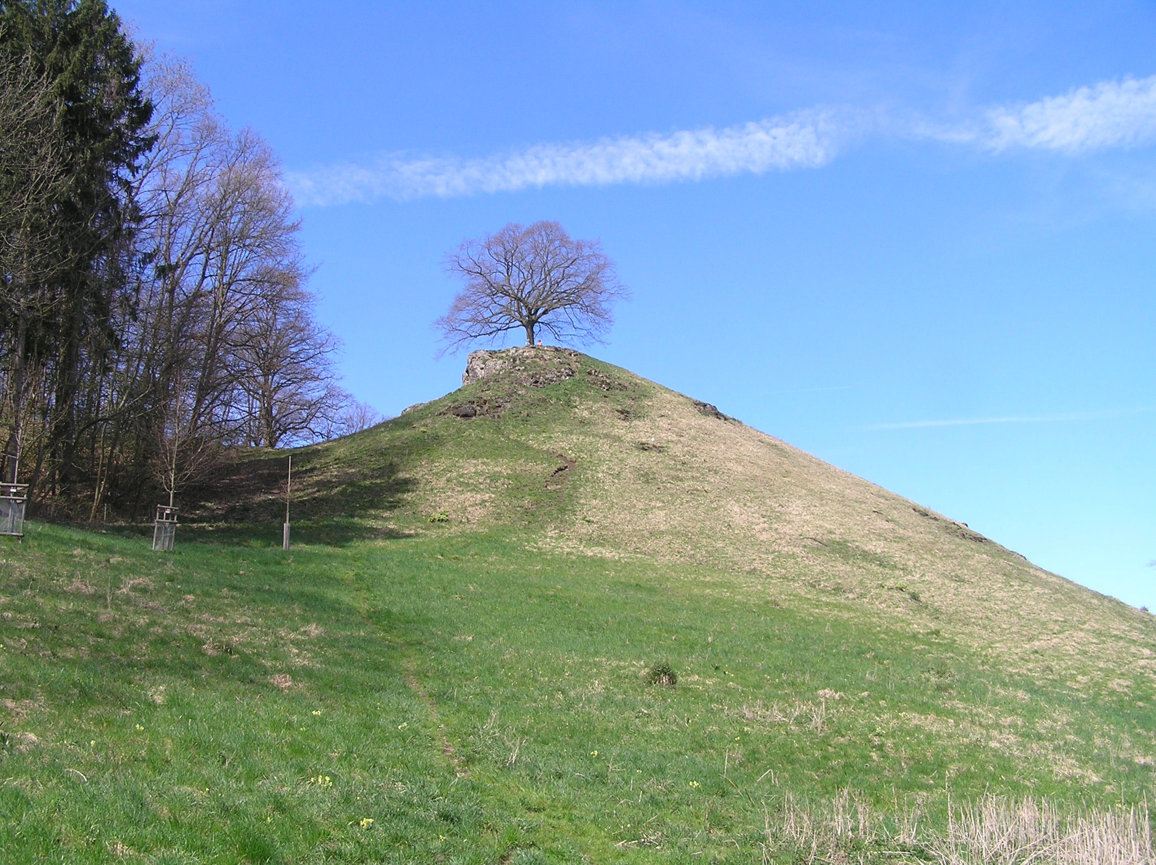 Calverbühl